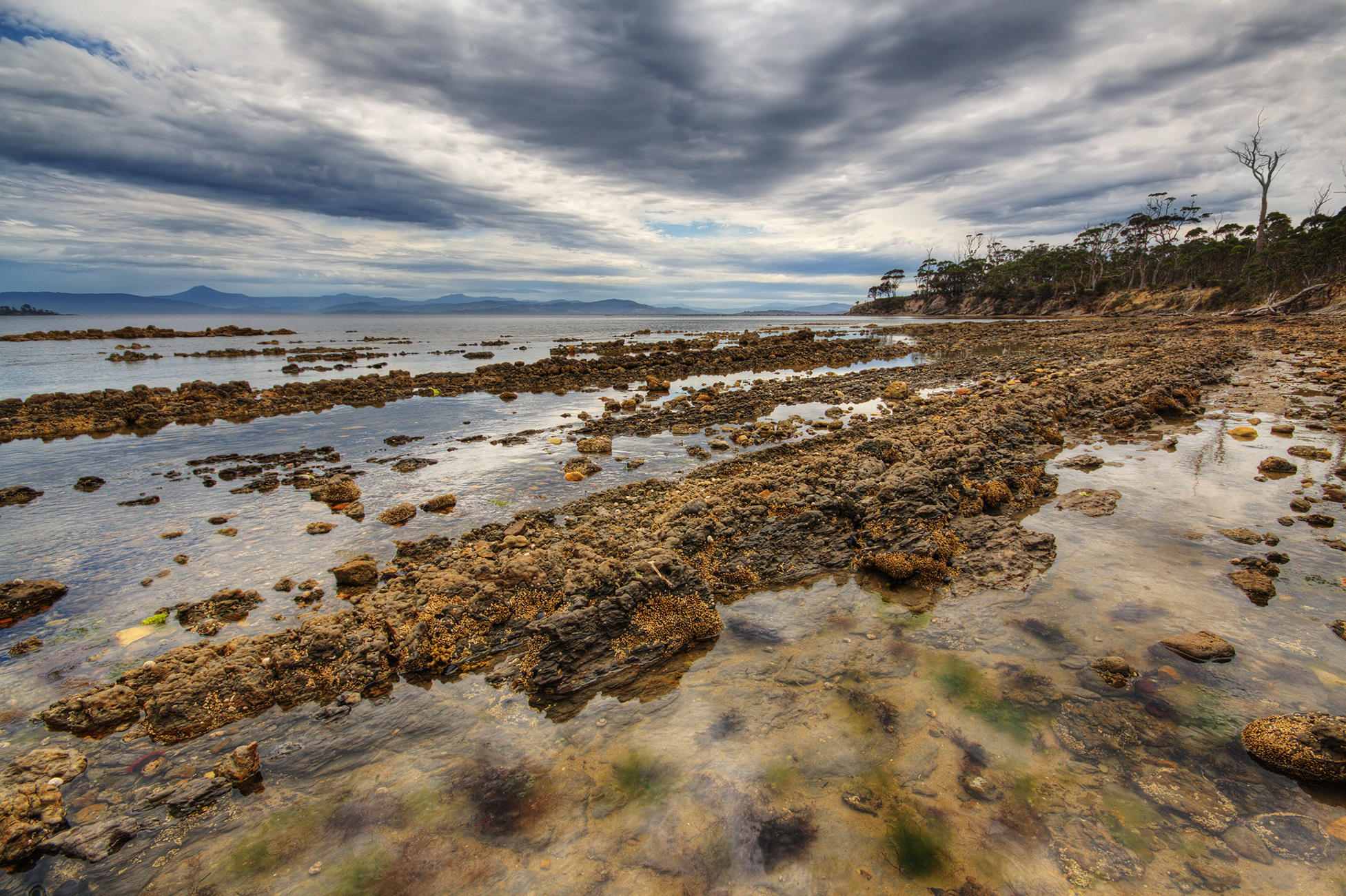 Cemetery Bay, Bruny Island, Tasmania, Australia Camera data Camera Canon EOS 400D Lens Sigma 10-20mm F4-5.6 EX DC HSM Focal length 10 mm Aperture f/11 Exposure time 1/100, 1/400, 1/1600 s Sensivity ISO 400